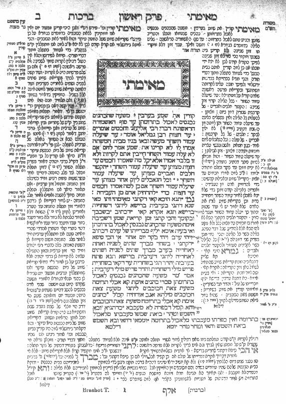 Scanned page of the Babylonian Talmud, showing the first page of the first tractate, Daf "Bet" (folio 2a) of Masechet (Tractate) Brachot. The center column contains the Talmud text, beginning with a section of Mishnah. The Gemara begins 14 lines down with the abbreviation גמ (gimmel-mem) in larger type. Mishnah and Gemara sections alternate throughout the Talmud text. The blocks of text on either side are the Rashi and Tosafot commentaries, printed in Rashi script. The Rashi is always on the side of the page closest to the binding. Other notes and cross references are in the margins.